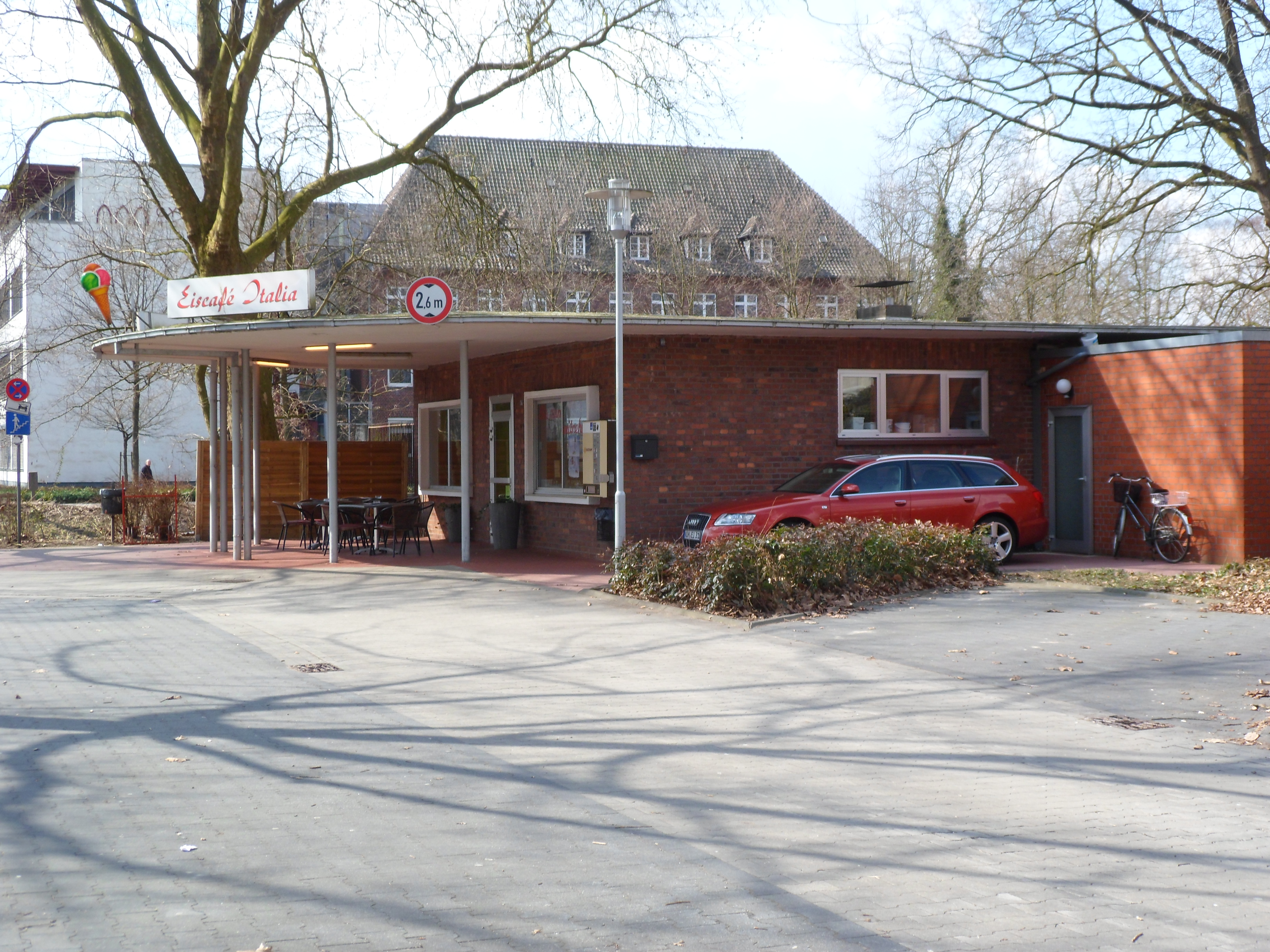 Nordhorn, Eiscafé neben Schwimmbad